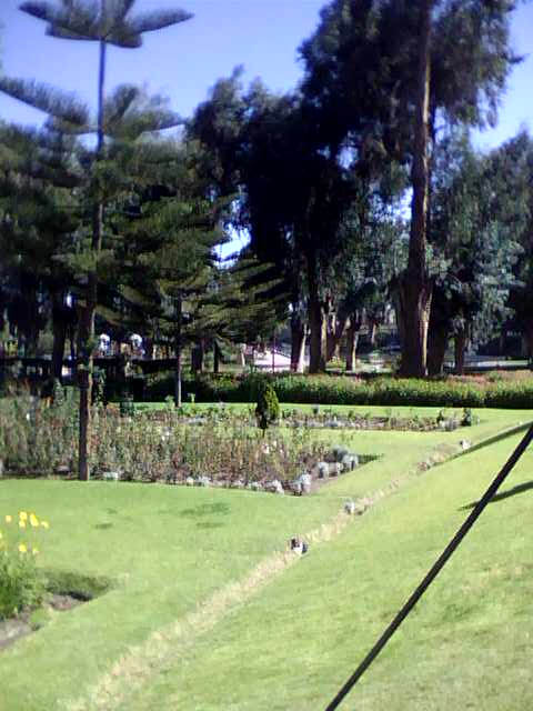 Selva Alegre Park in Arequipa